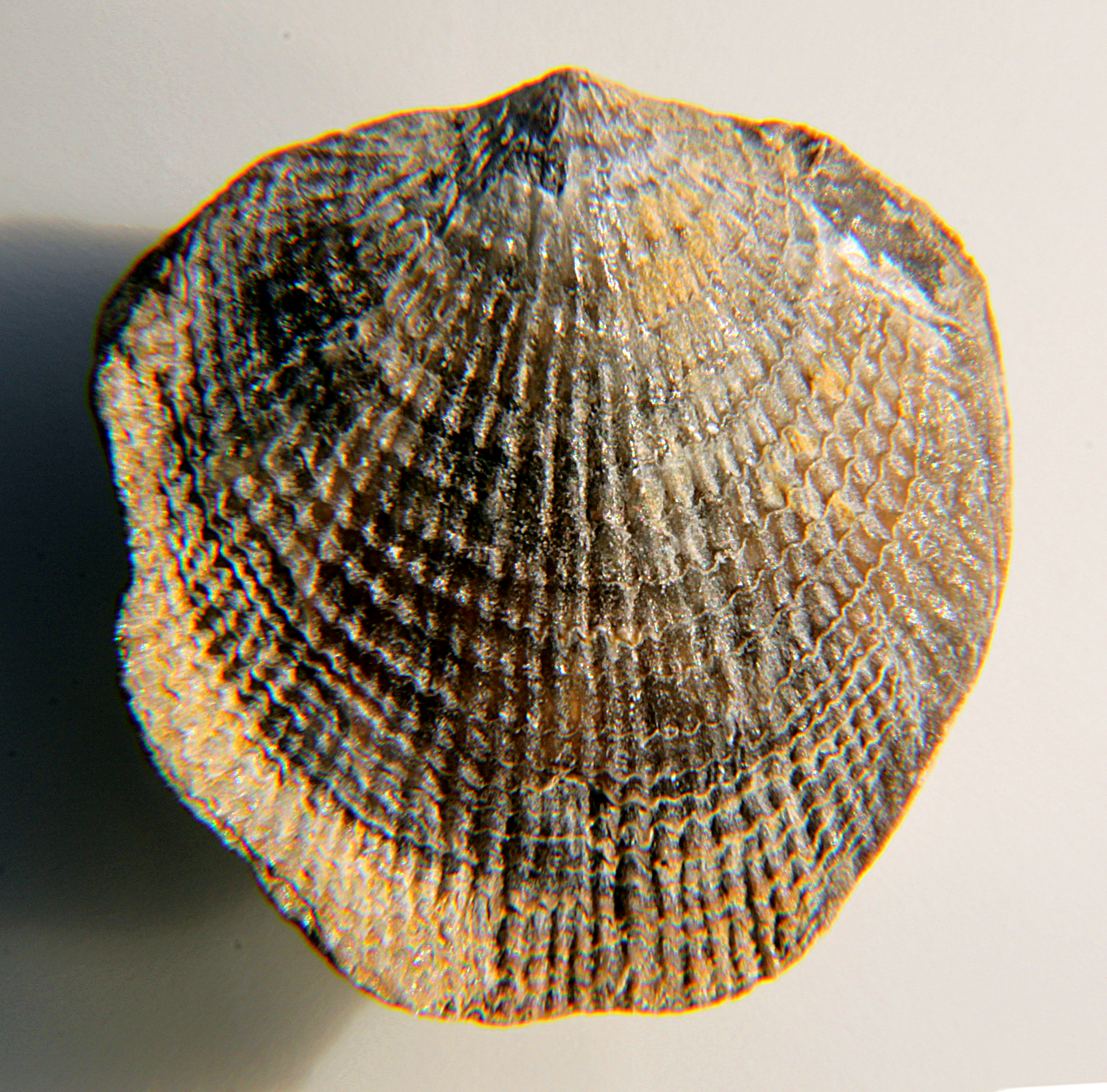 Atrypa cf reticularis, 26mm along the axis, order Rhynchonellida, family Atrypidae, collected in the Junkerberg Formation, near Gondelsheim, Eifel, Germany, from the early Middle Devonian (Eifelian)